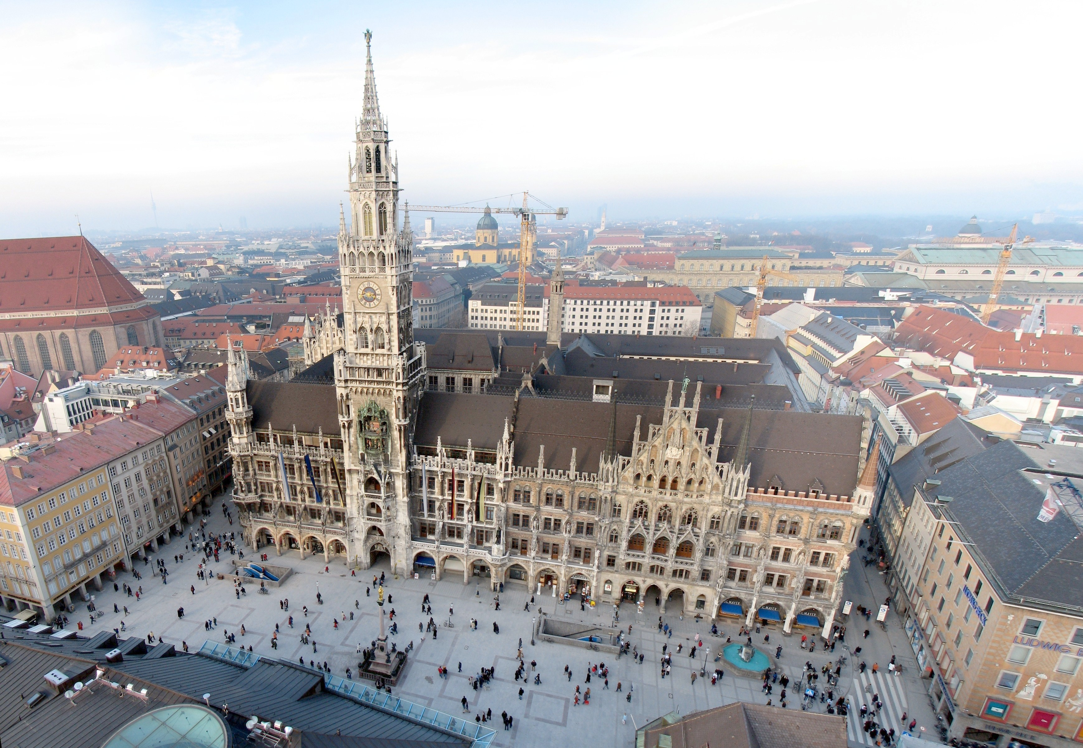 The new city hall and the Marienplatz in München as seen from St. Peter. Panorama image made from 7 individual images.